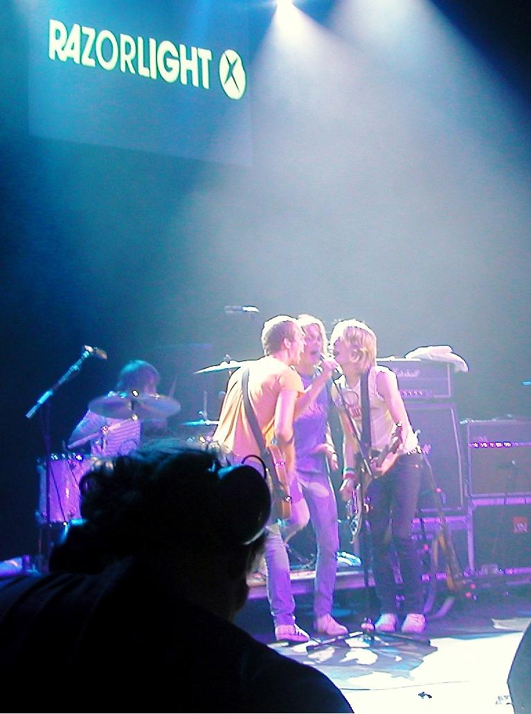 Razorlight perform at the 2004 Make Trade Fair Live concert in London's Hammersmith Apollo.